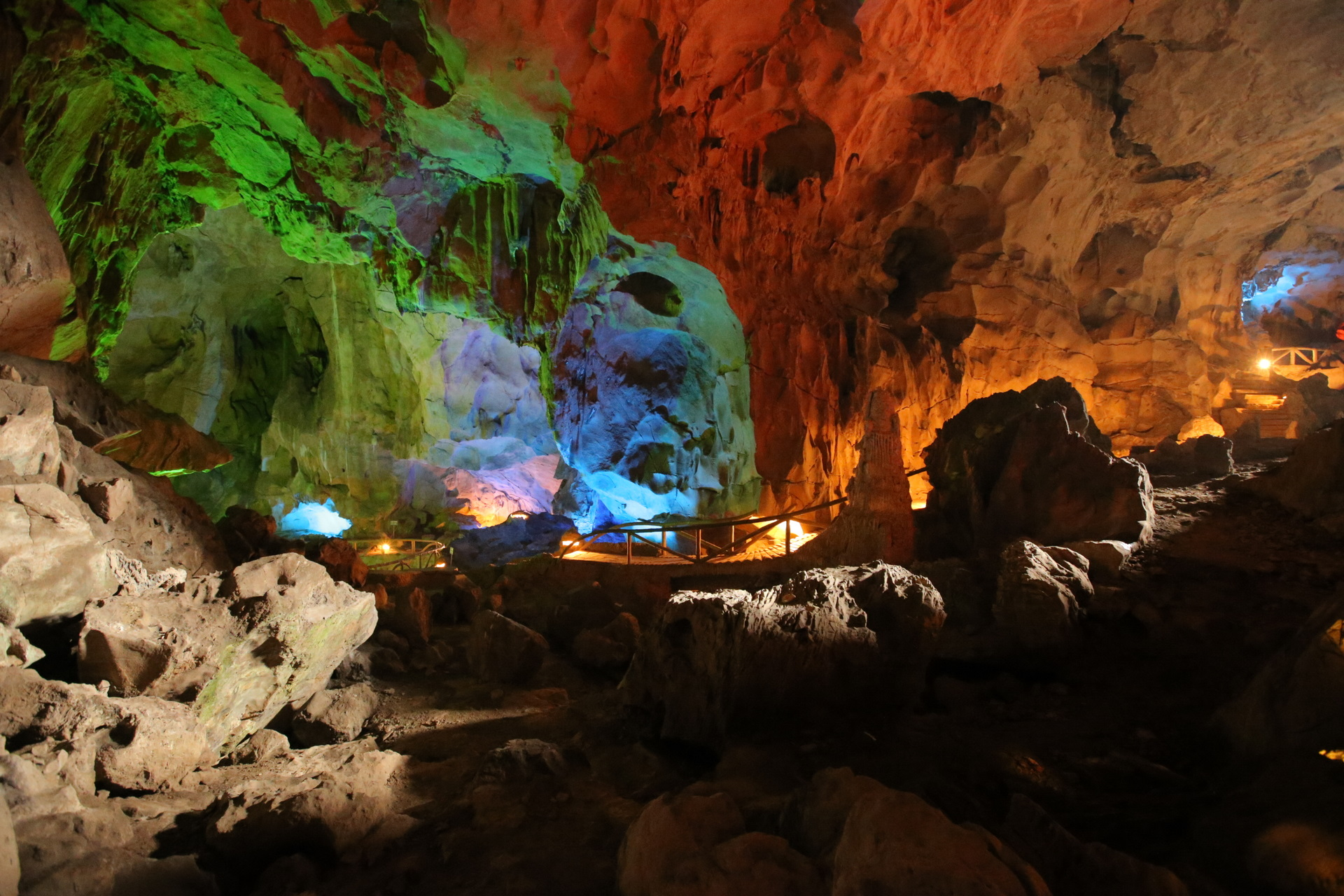 Động Tam Thanh cave in Lạng Sơn city, Vietnam